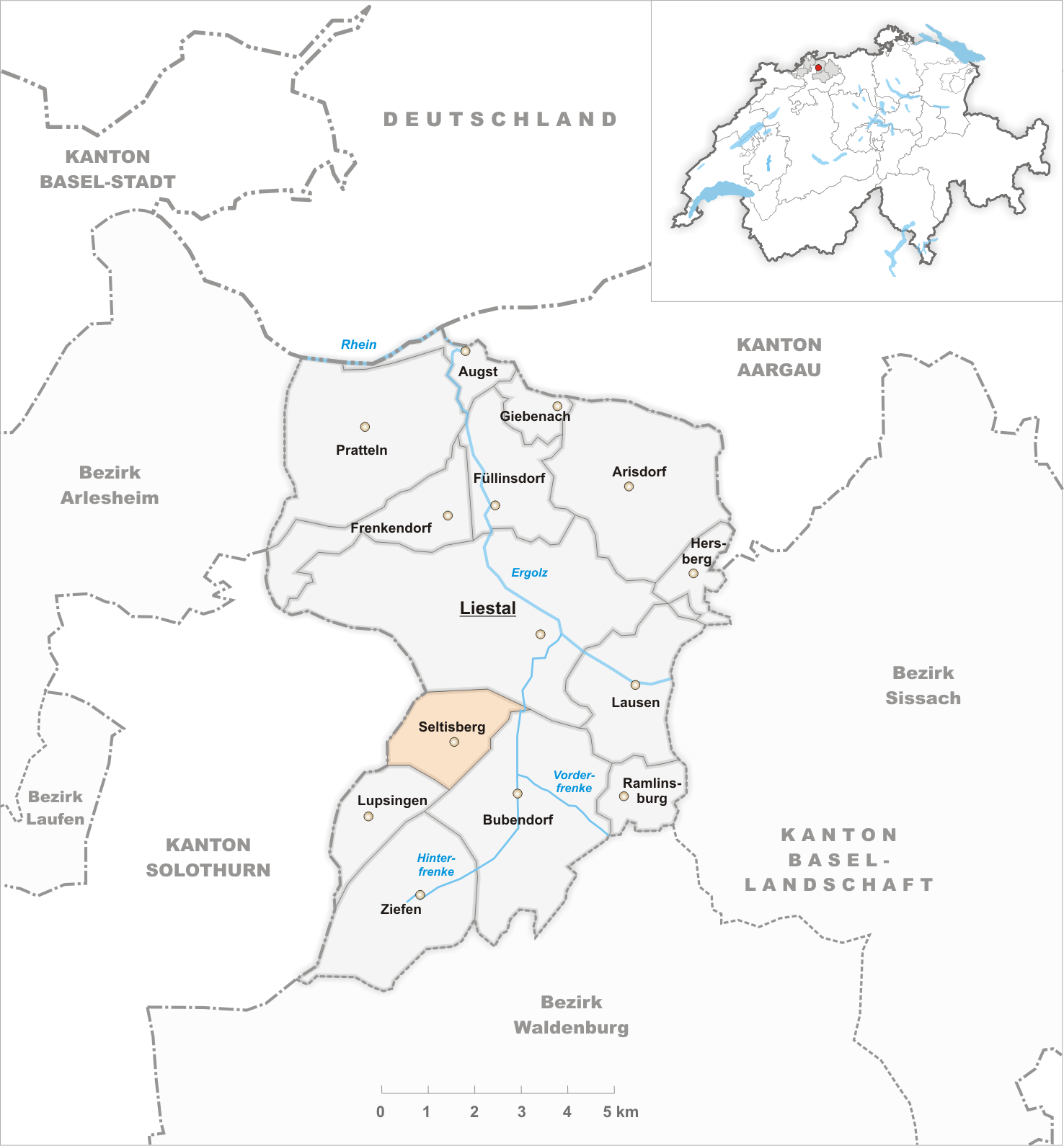 Municipality Seltisberg